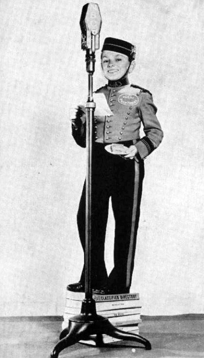 Promotional postcard for Philip Morris cigarettes. Copyright details The card was intended for promotional use; Roventini as Johnny the Bellboy, an advertising character for the brand of cigarettes, is shown on front. Roventini appeared on the Philip Morris Show as part of the cast in the 1940s. The back of the card mentions, "Call for Philip Morris", which was the slogan for the brand. It was Roventini's line for radio and later television commercials. There are no copyright marks on the card; this can be seen in the links above for photos of the full front and back of the card. Dating this from the look of the microphone and comparing it to File:Supperclub postcard 1945.JPG, this card was produced in the 1940s.